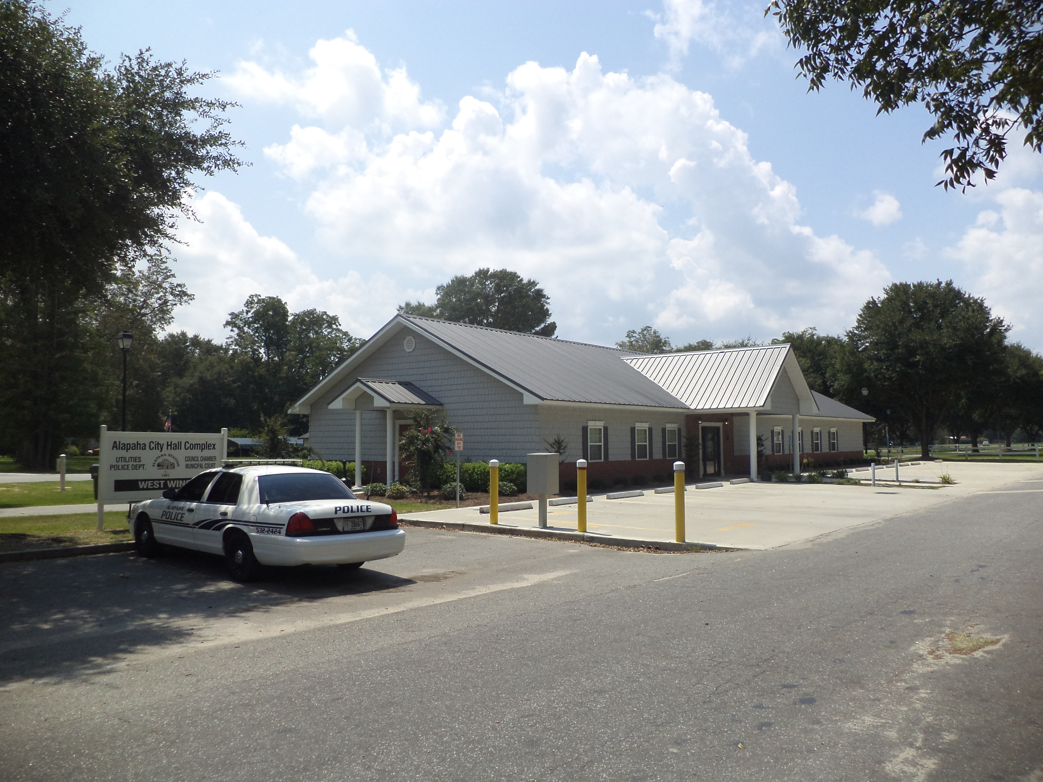 Alapaha City Hall (SE corner) and Police Department, N Railroad St, Berrien County, Georgia